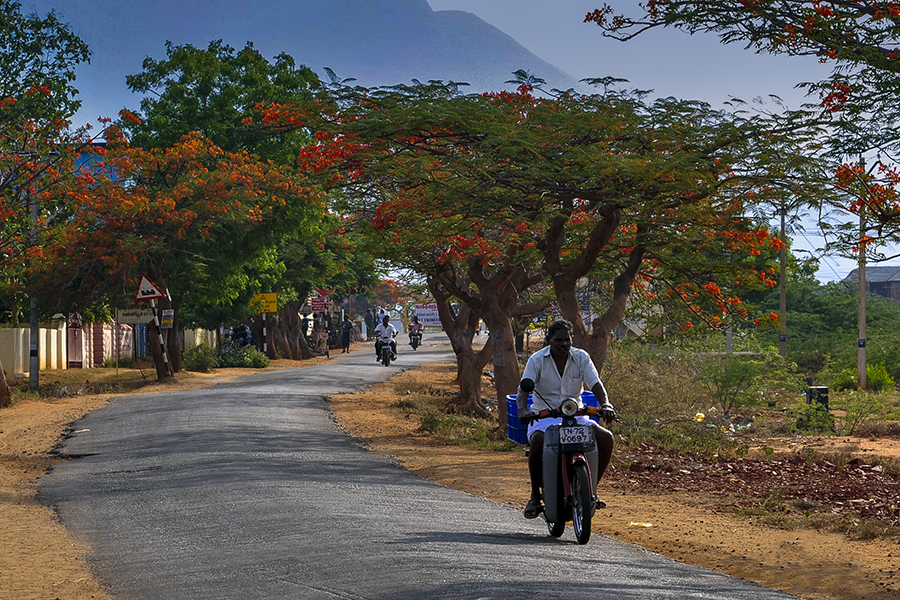 வள்ளியூர்